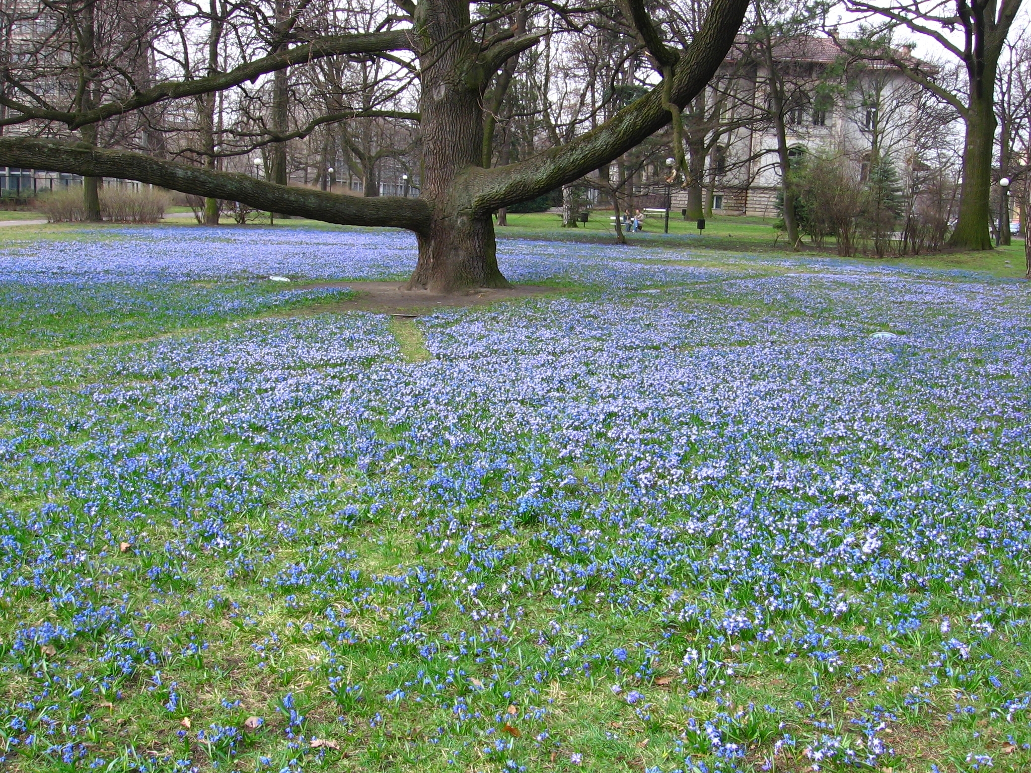 Othocallis siberica in Park Klepacza in Łódź